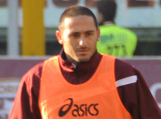 David Di Michele nel riscaldamento di Torino-Roma